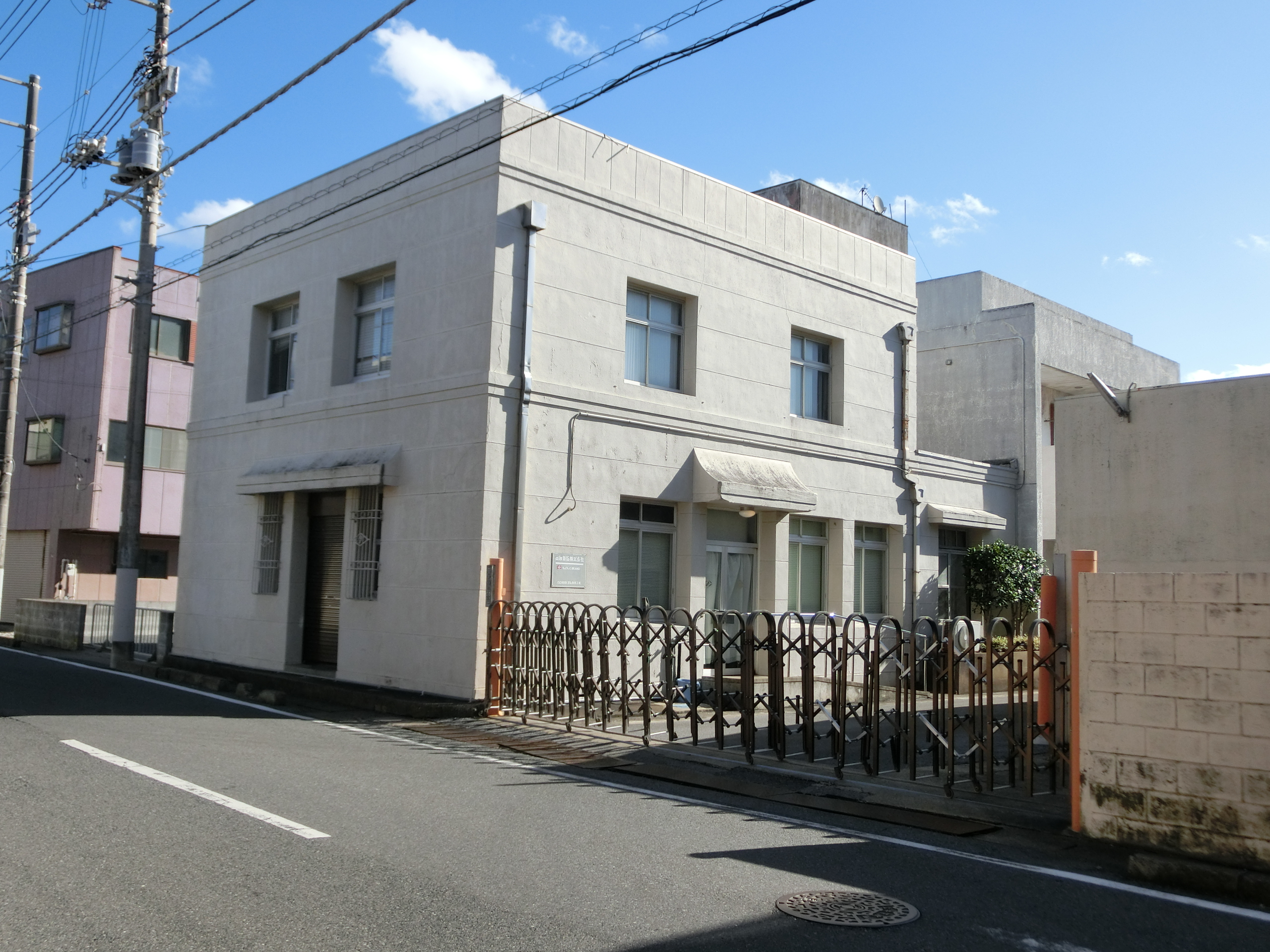 Tawara Canning Head Office